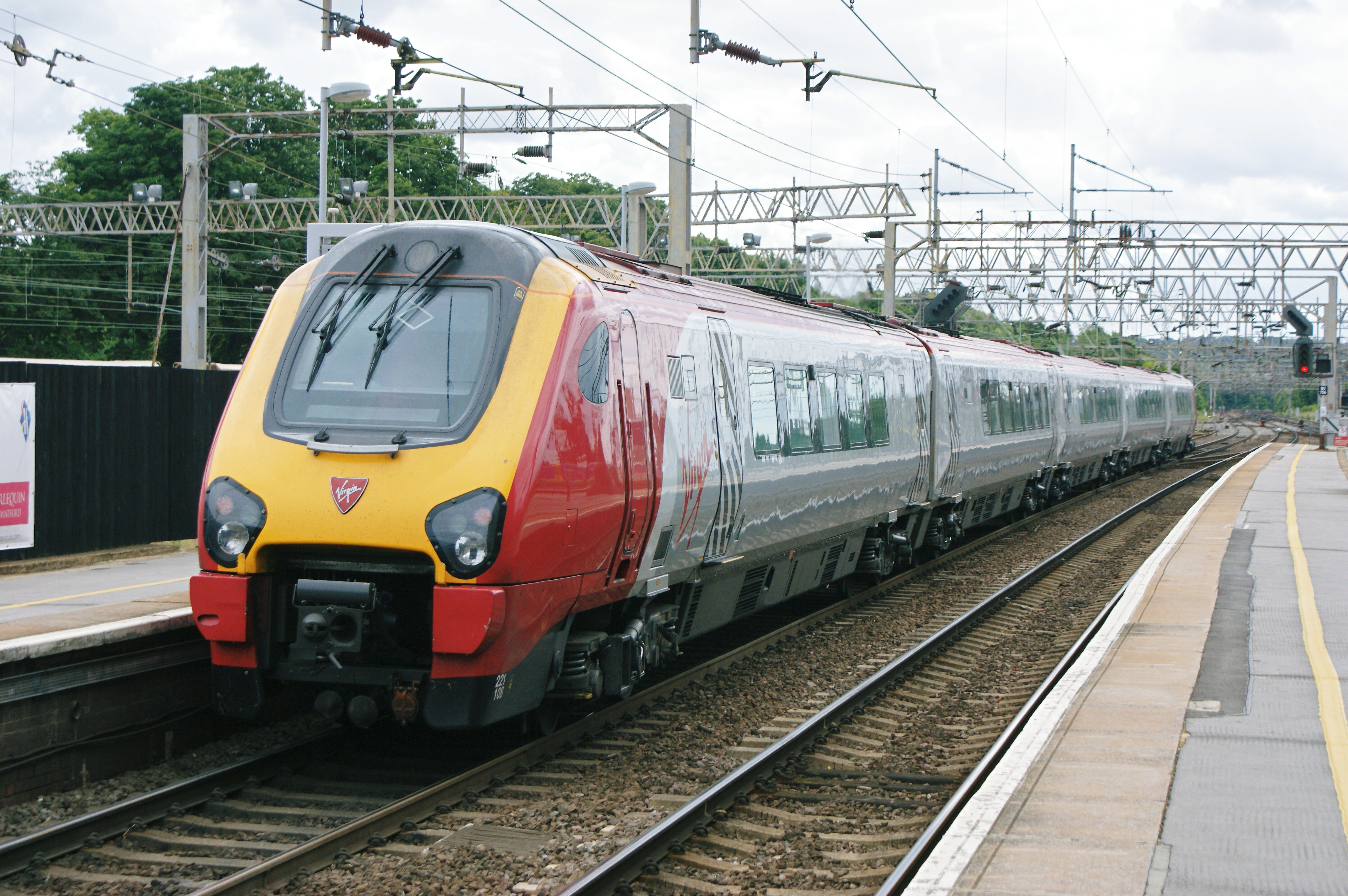 Bombardier (Wakefield & Brugge) Class 221 "Super Voyager" 5-car dmu No.221 108 "Sir Ernest Shackleton" of Virgin West Coast leaving Watford Jct. on an Euston - Llandudno, 07/08.